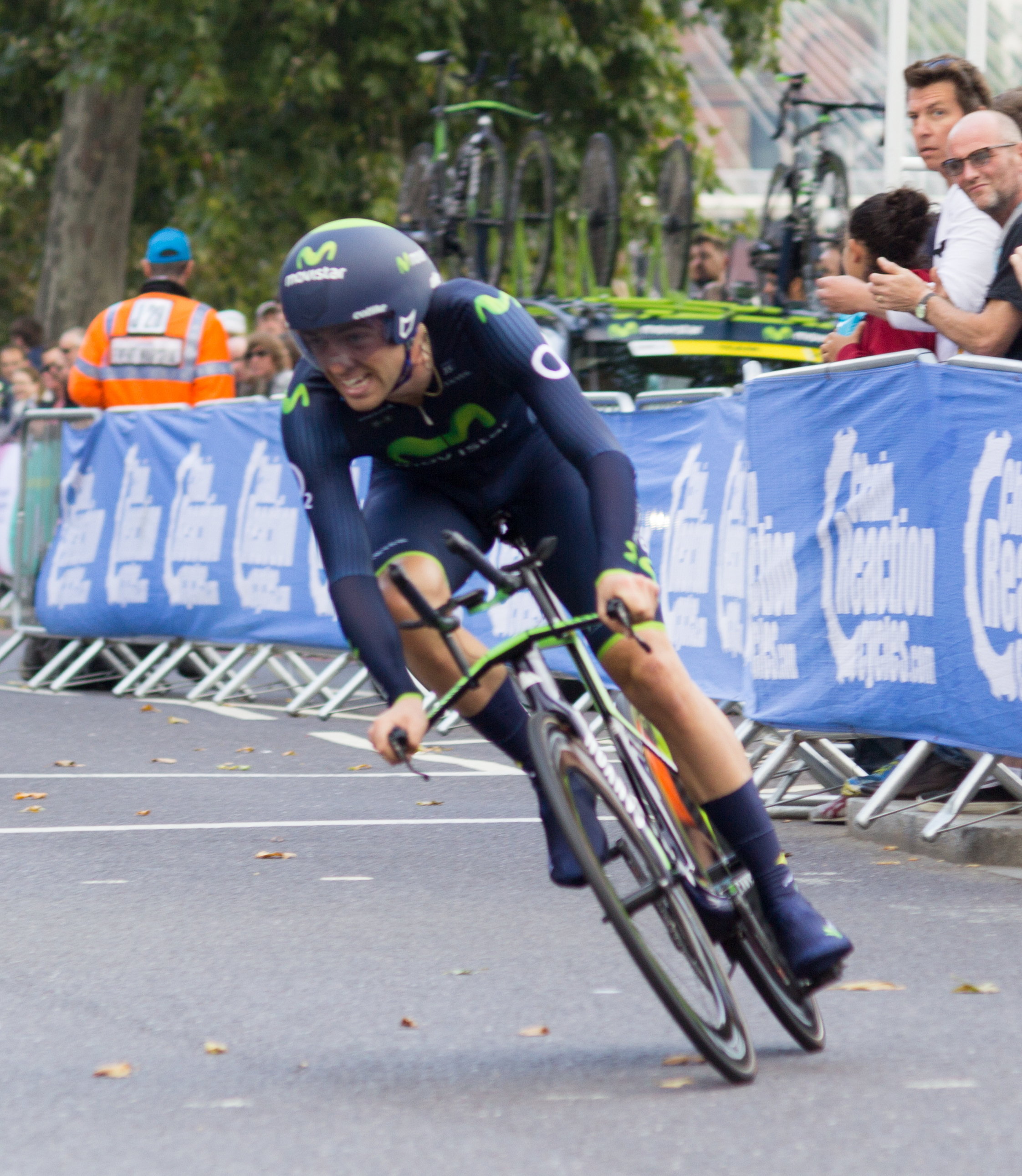 Tour of Britain 2014 stage 8a - London time trial